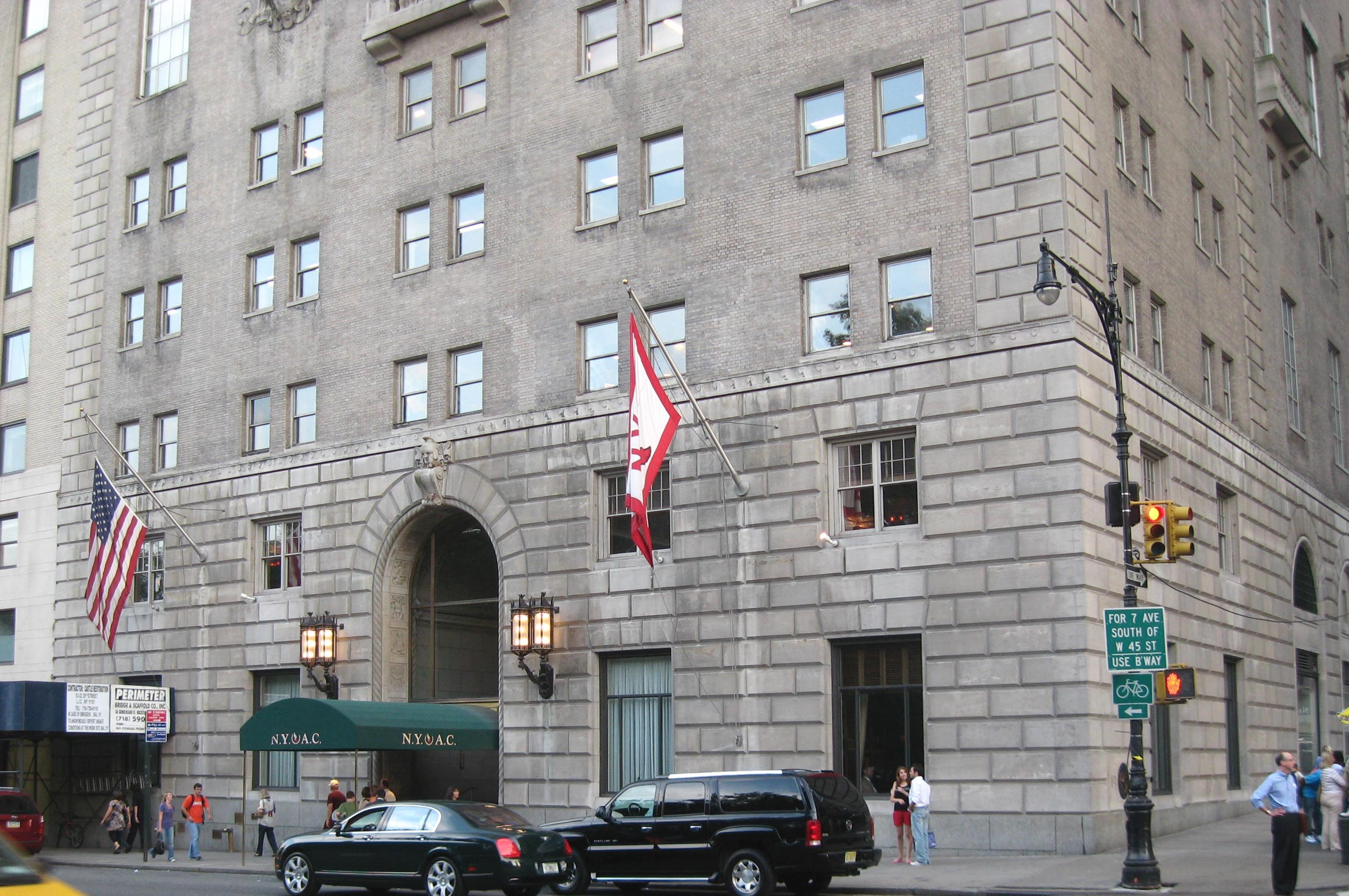 Looking south across 59th Street and 7th Avenue at New York Athletic Club shortly before sunset of a mostly clear day.